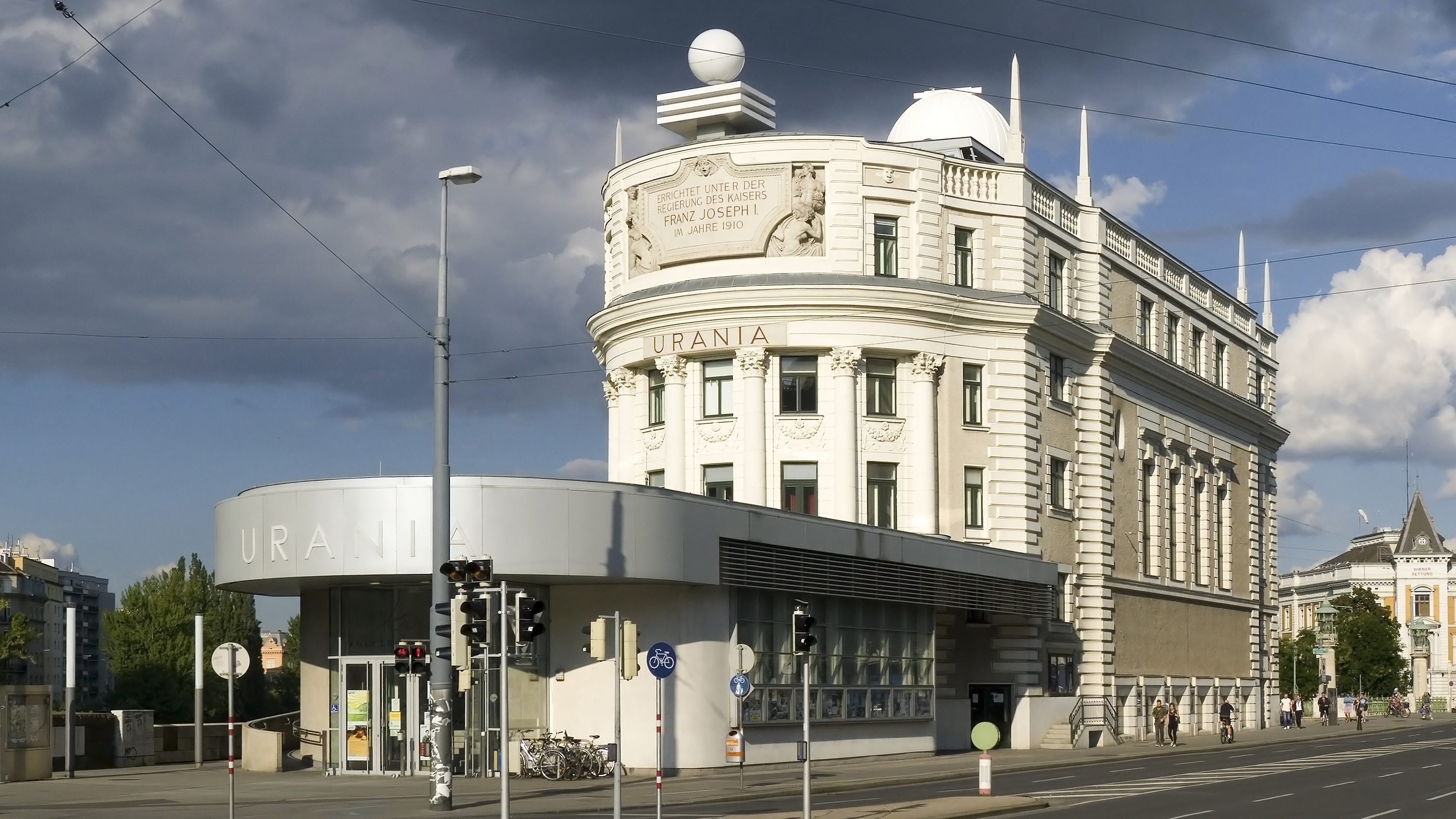 Adult education centre and observatory Urania, 1st district of Vienna